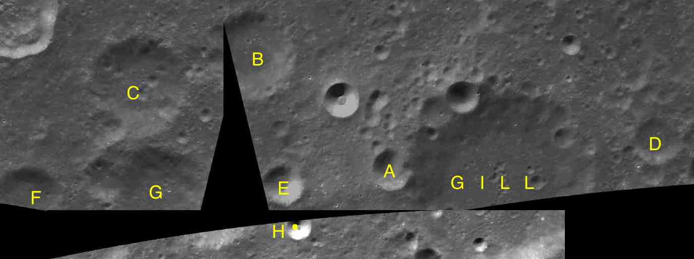 Parts of the charts LAC-128, LAC-129, LAC-139 used for the presentation